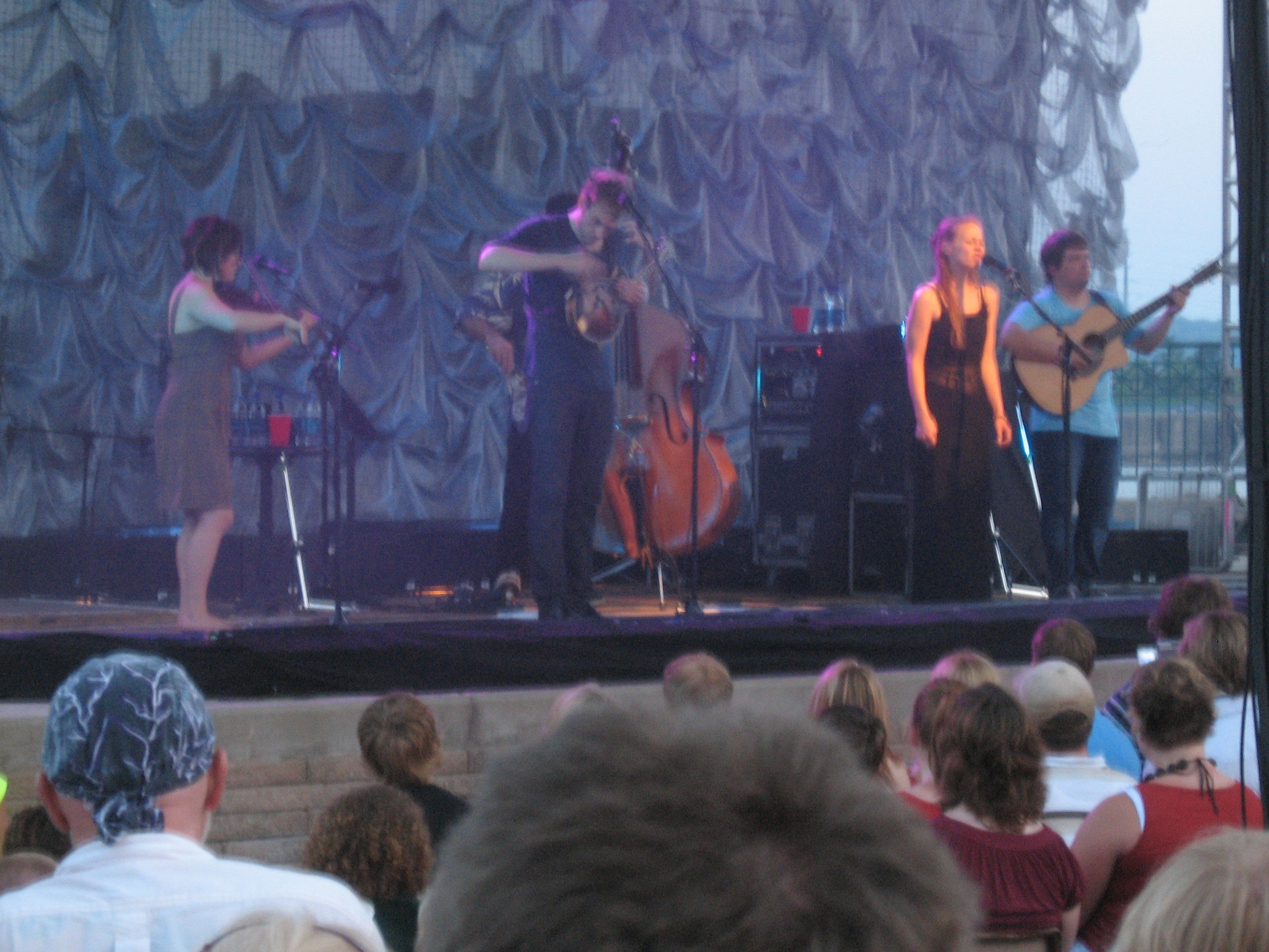 Nickel Creek and Fiona Apple live in Peoria, Illinois [possibly CEFCU Center Stage on the Peoria riverfront]